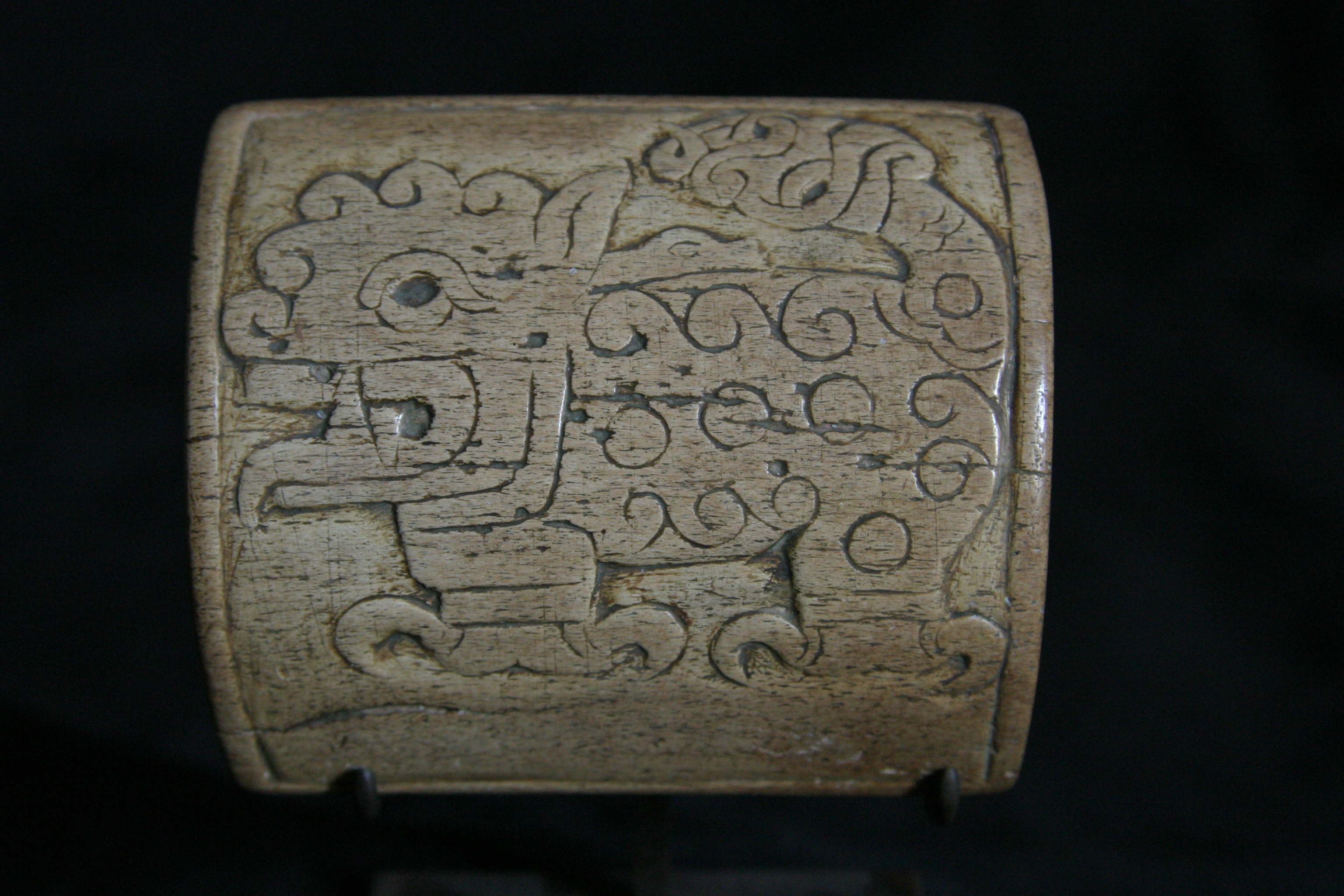 snuff tablet, Chavin